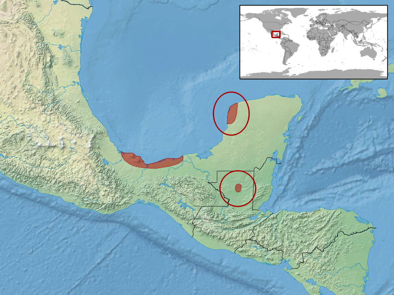 geographic distribution of Coniophanes quinquevittatus (Native: Guatemala; Mexico)